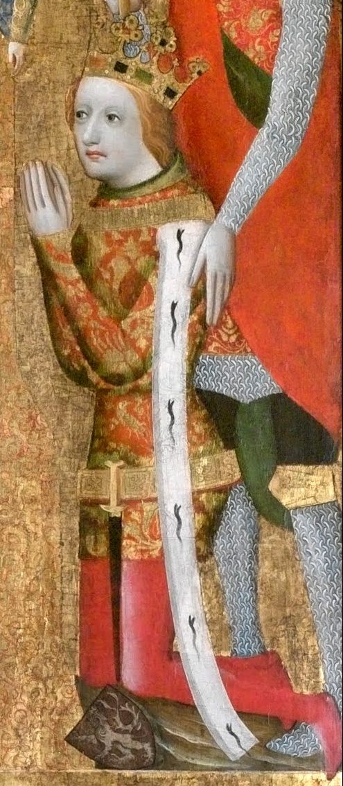 King Wencelaus IV from the Votive Painting of Archbishop Jan Očko of Vlašim.